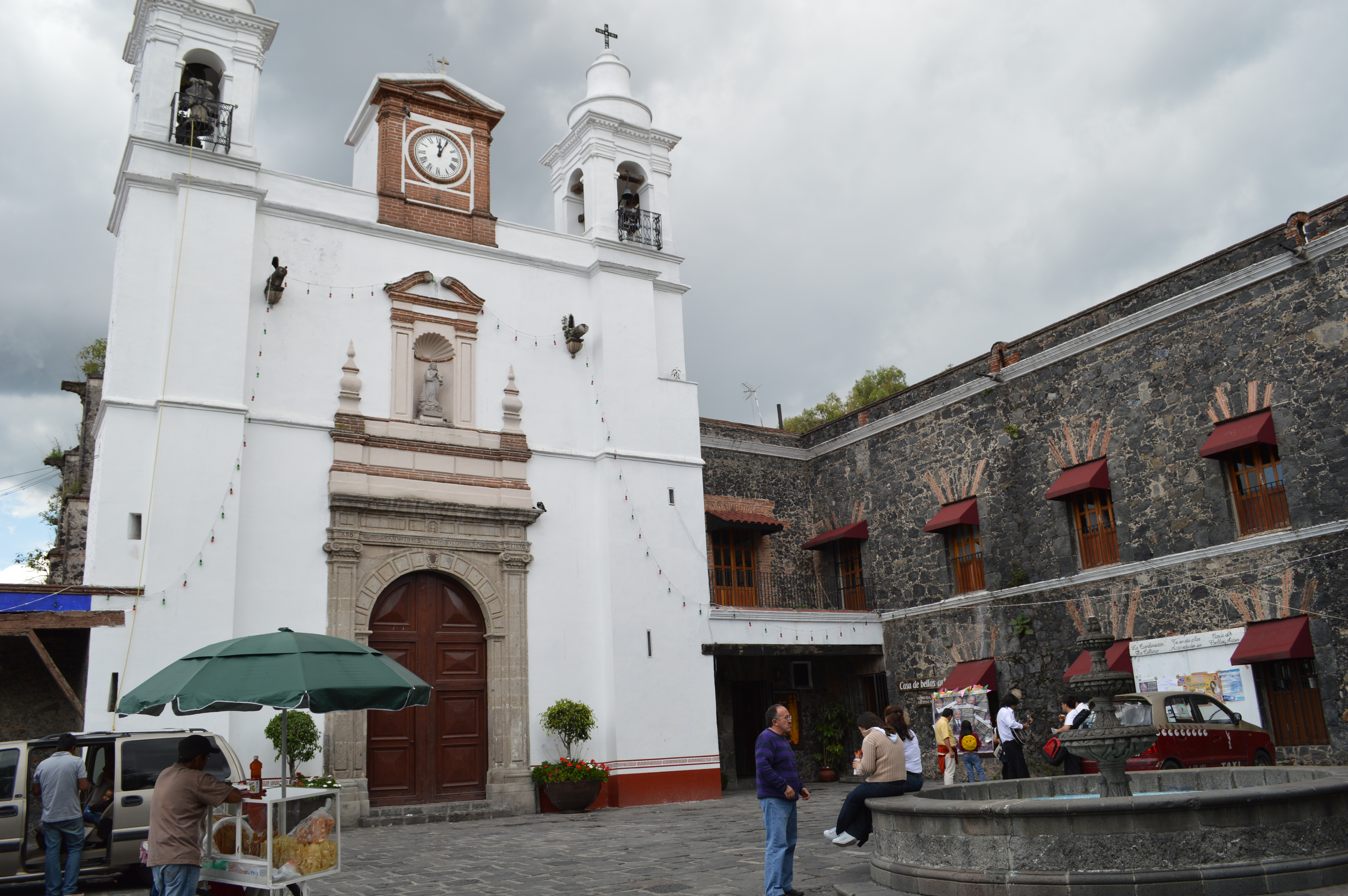 Facade of the Concepción church with Casa de Bellas Artes in Contreras, Mexico City